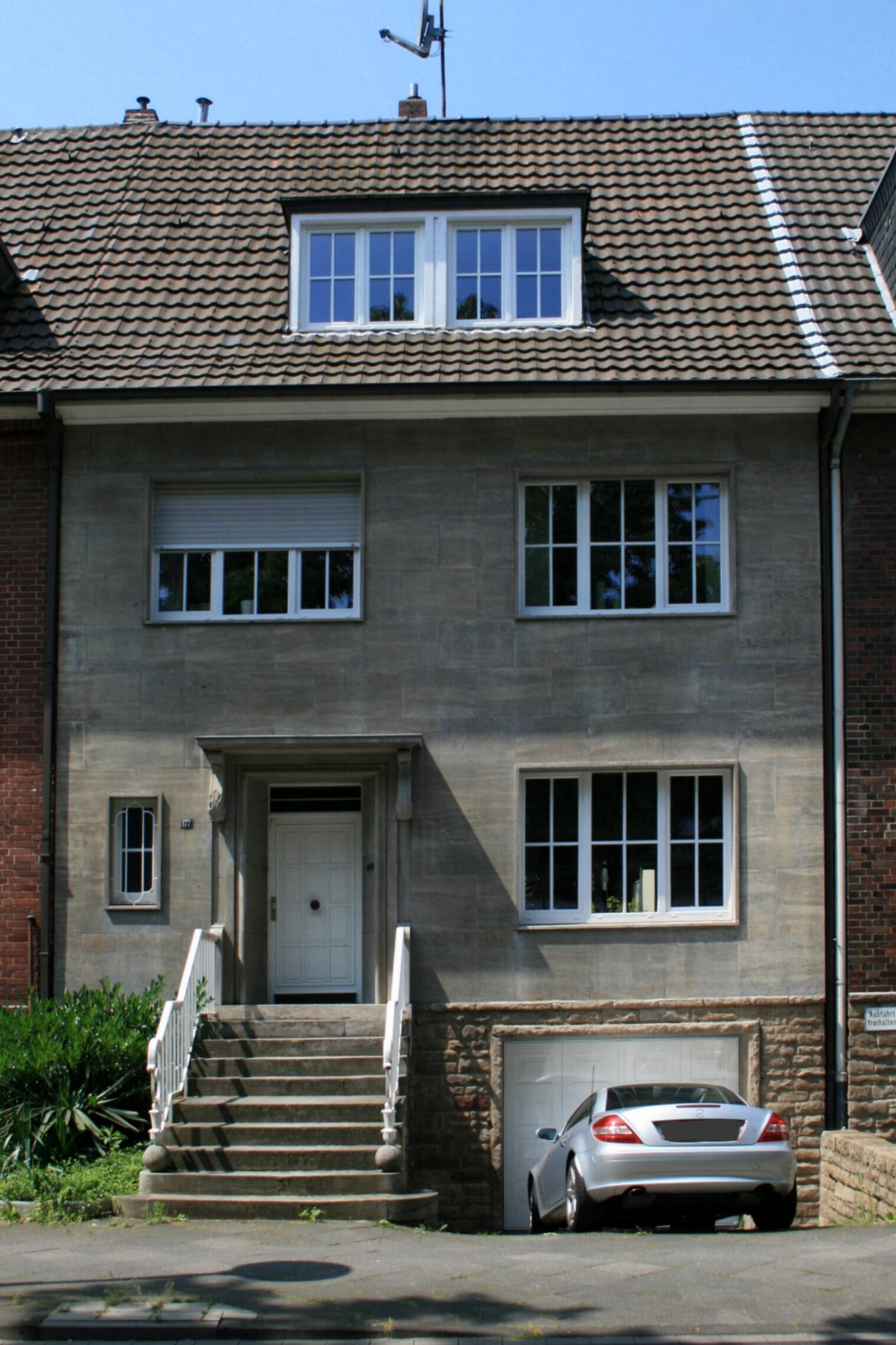 Cultural heritage monument No. B 115 in Mönchengladbach